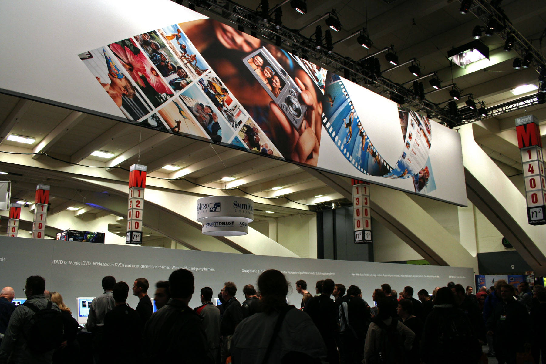 Attendees at Macworld Expo 2006 in the Moscone Center, taken by Scott Stevenson.